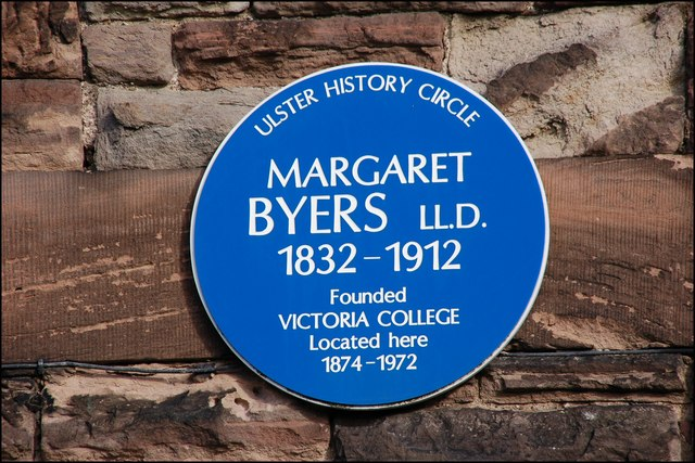 Byers plaque, Belfast This plaque, at the corner of the University Road and Lower Crescent, commemorates Margaret Byers